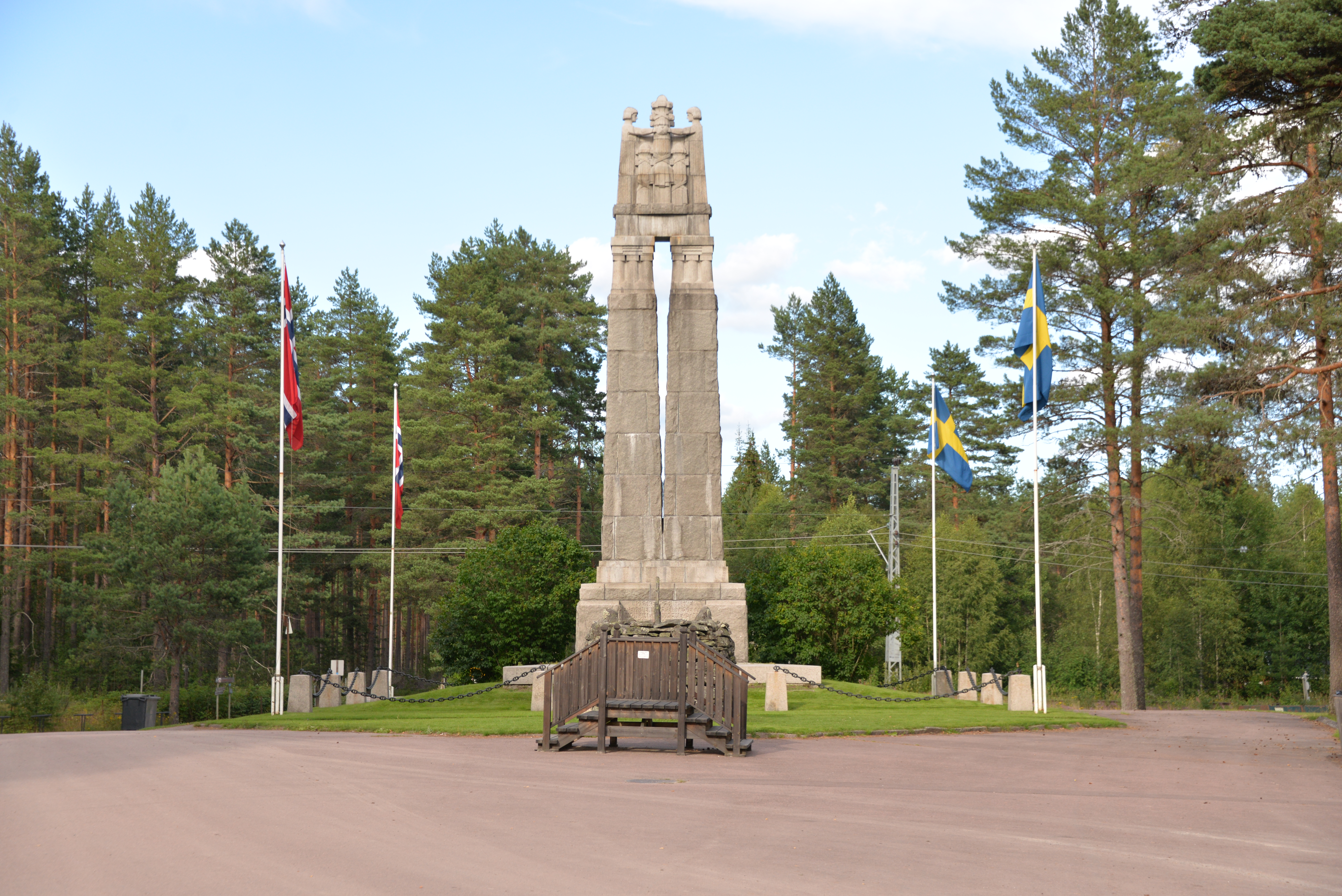 Morokulien